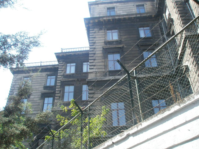 Burnt buildings surrounding Aya Triada (2007)